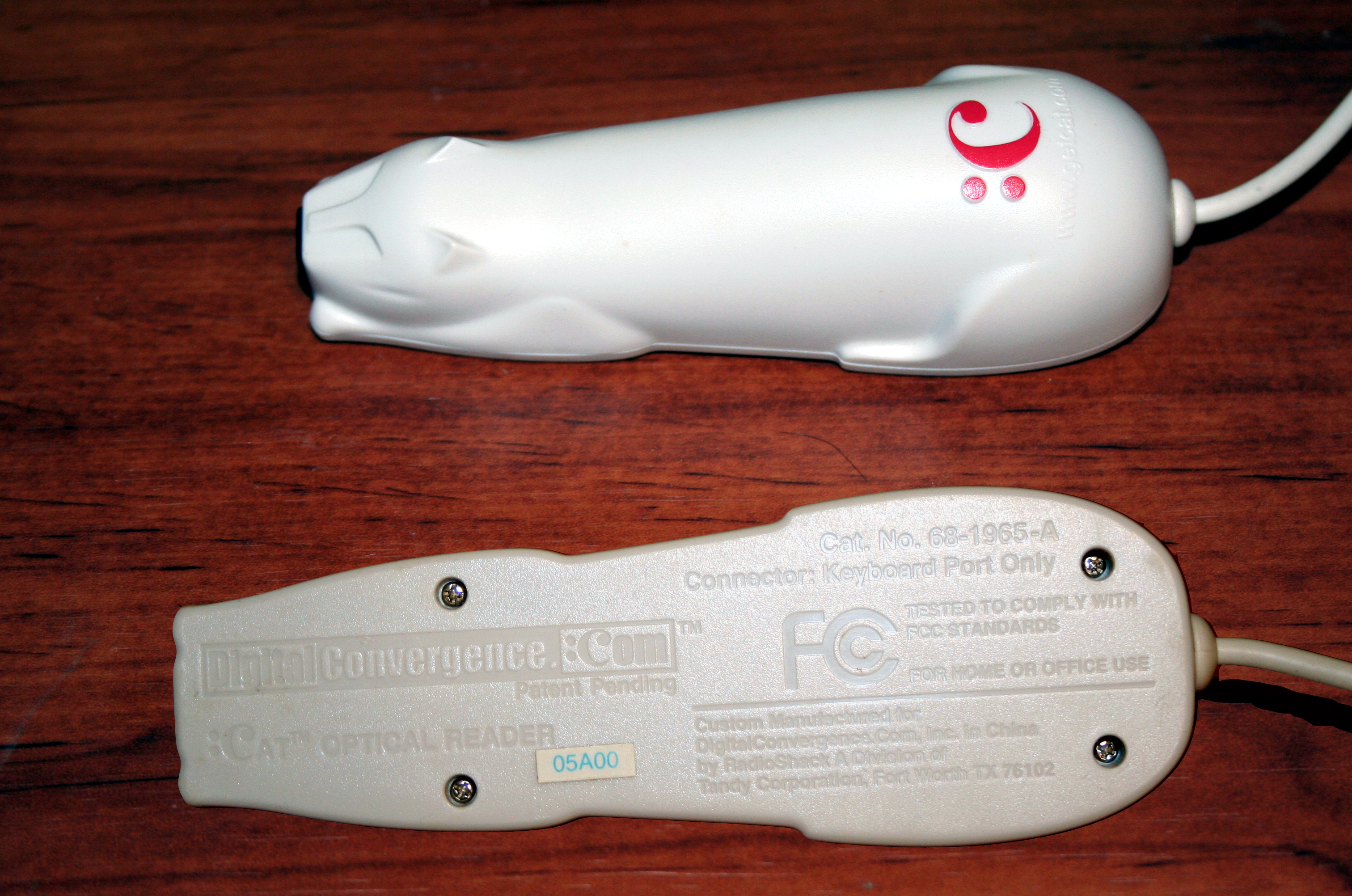 Underside of the CueCat scanner. Self-made image submitted by Chris Tomkins-Tinch (User:Tomkinsc). Released under the GFDL.